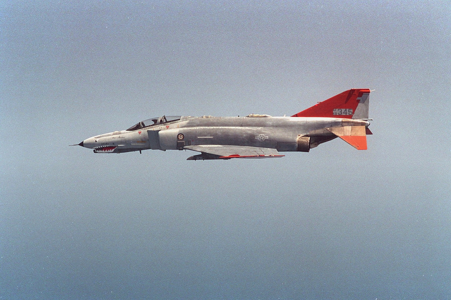 A U.S. Air Force QF-4E unmanned drone (target aircraft) flies over the over Gulf of Mexico on 17 July 1998. This aircraft, s/n 68-0345, was built as a McDonnell Douglas F-4E-37-MC Phantom II and retired to the AMARC as "FP-745" on 3 September 1991. It was later converted to QF-4E "AF101" at Holloman Air Force Base, New Mexico (USA), and expended on 29 July 1998.